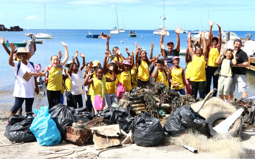 Stéphane Mifsud organise régulièrement des opérations de sensibilisation et de nettoyage avec les enfants dans le cadre de son association l'Odyssée Bleue. Cette photo a été prise après le nettoyage de l'Anse à la Barque en Guadeloupe en 2019.